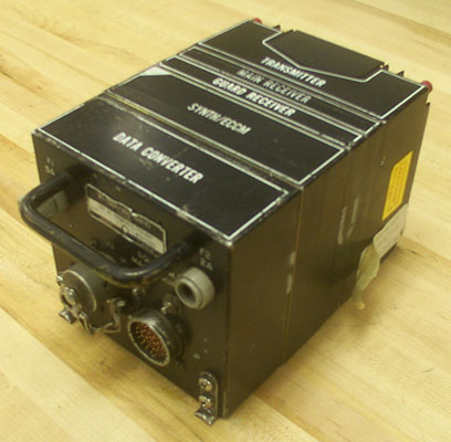 ARC-164 Receiver/Transmitter (RT-1504). Picture taken at Moffett Federal Airfield by Richard C. Wysong II in early 2003. Uploaded by the same in 2007. Declared public domain by author (self).